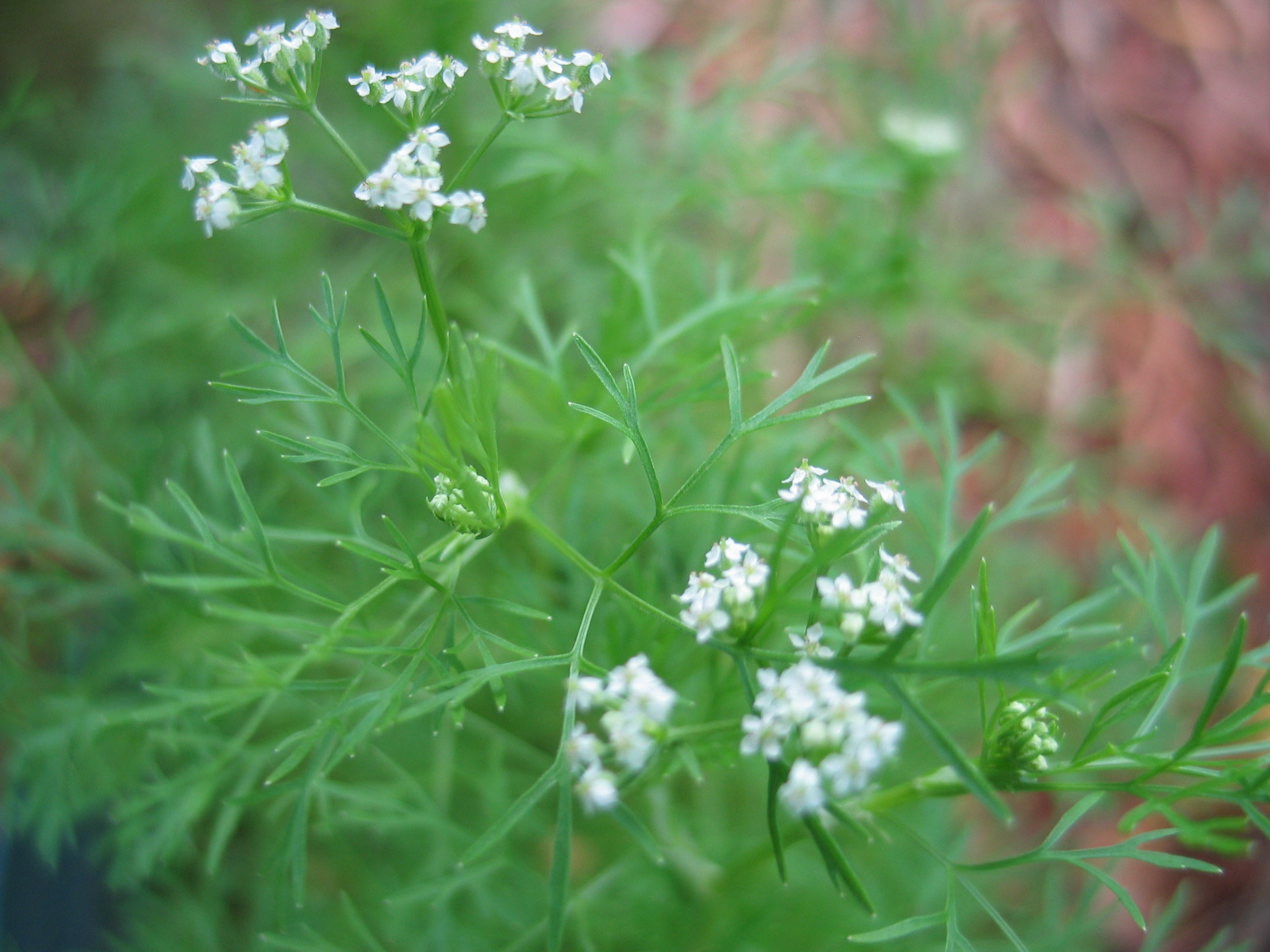 Hawaii scaleseed or Hawaii spermolepis Apiaceae Endemic to the Hawaiian Islands Endangered Oʻahu (Cultivated) Admittedly a blurry photo, but it gives a glimpse a look at this very rare & endangered plant.